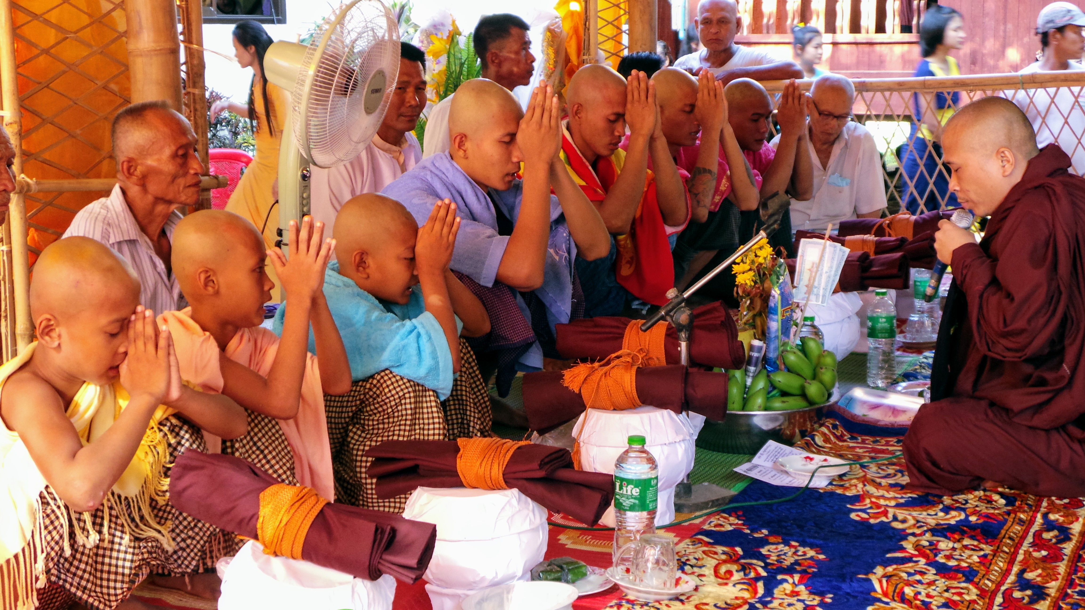 Requesting robe cloth to join Buddha monks မြန်မာဘာသာ: ရှင်သာမဏေနှင့် ရဟန်းခံရန် သင်္ကန်းတောင်းခြင်း